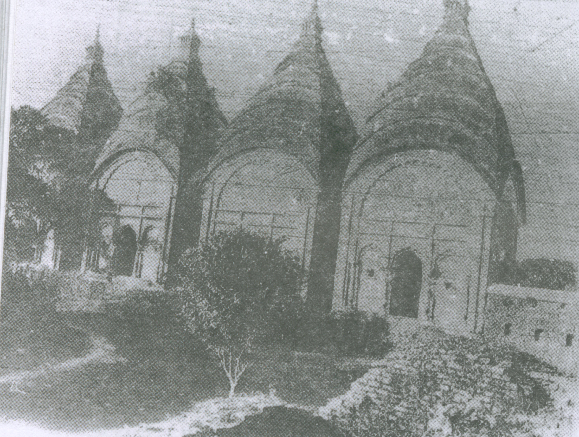 Dhakeshwari Temple in 1890.